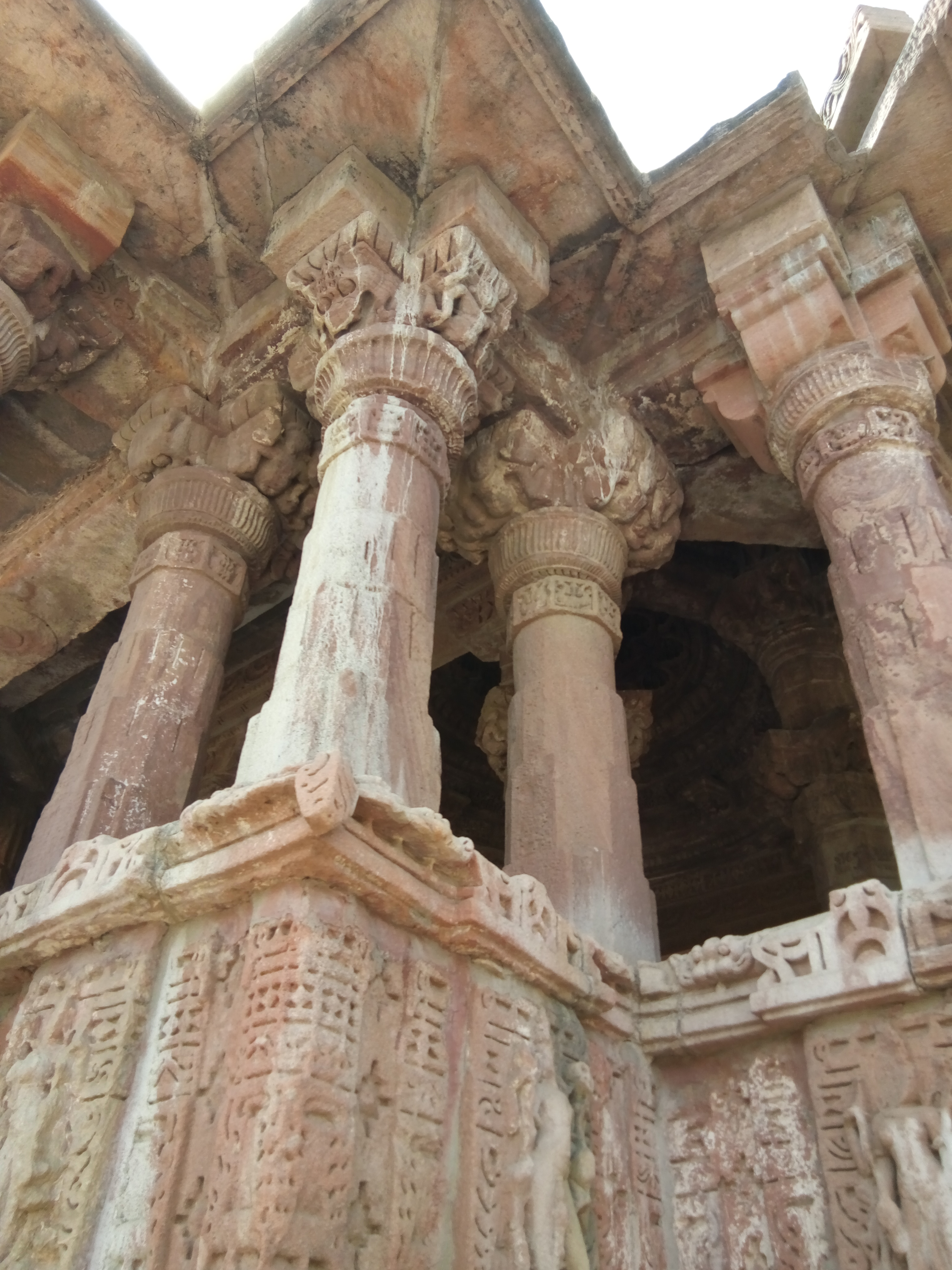 Galteshwar temple